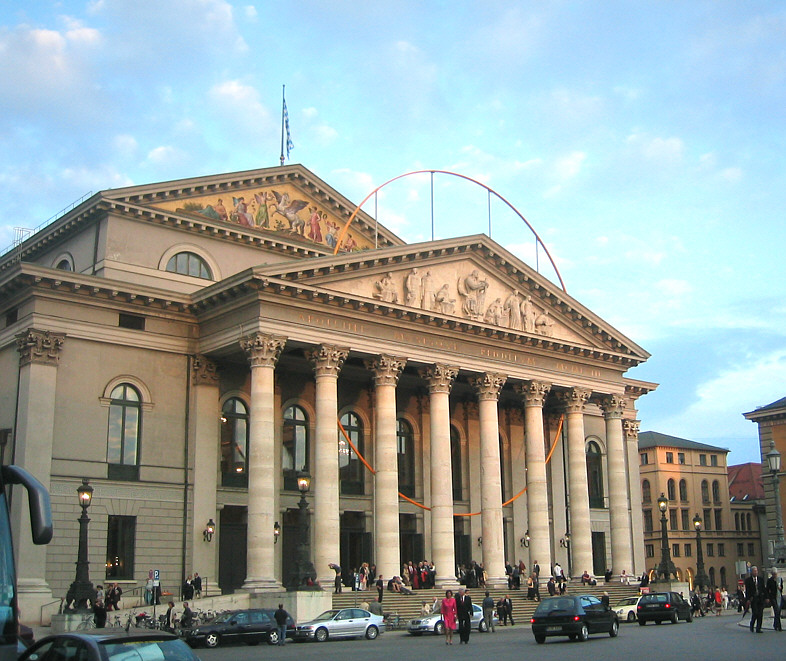 Munich, Germany: Nationaltheater (home to the Bavarian State Opera), Max-Joseph-Platz The circle above and beneath the portico in is an advertisement for a production of Richard Wagner's opera tetralogy "Der Ring des Nibelungen".